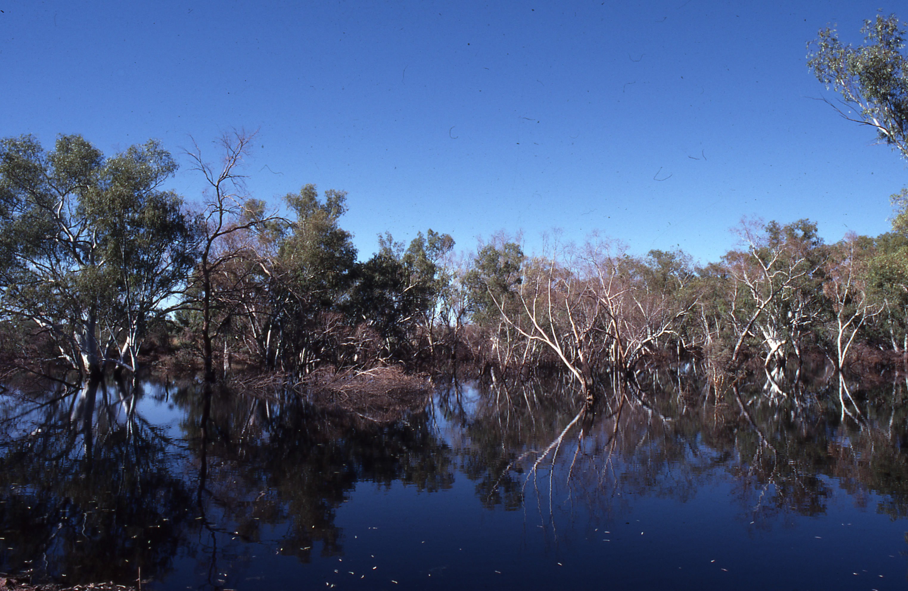 The Fortescue River doesn't flow often, but you can see the result in the otherwise empty dam catchment area when the rains eventually come.